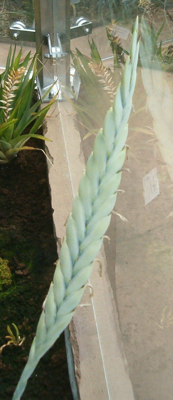 At Botanical Gardens Berlin-Dahlem Species Tillandsia heterophylla